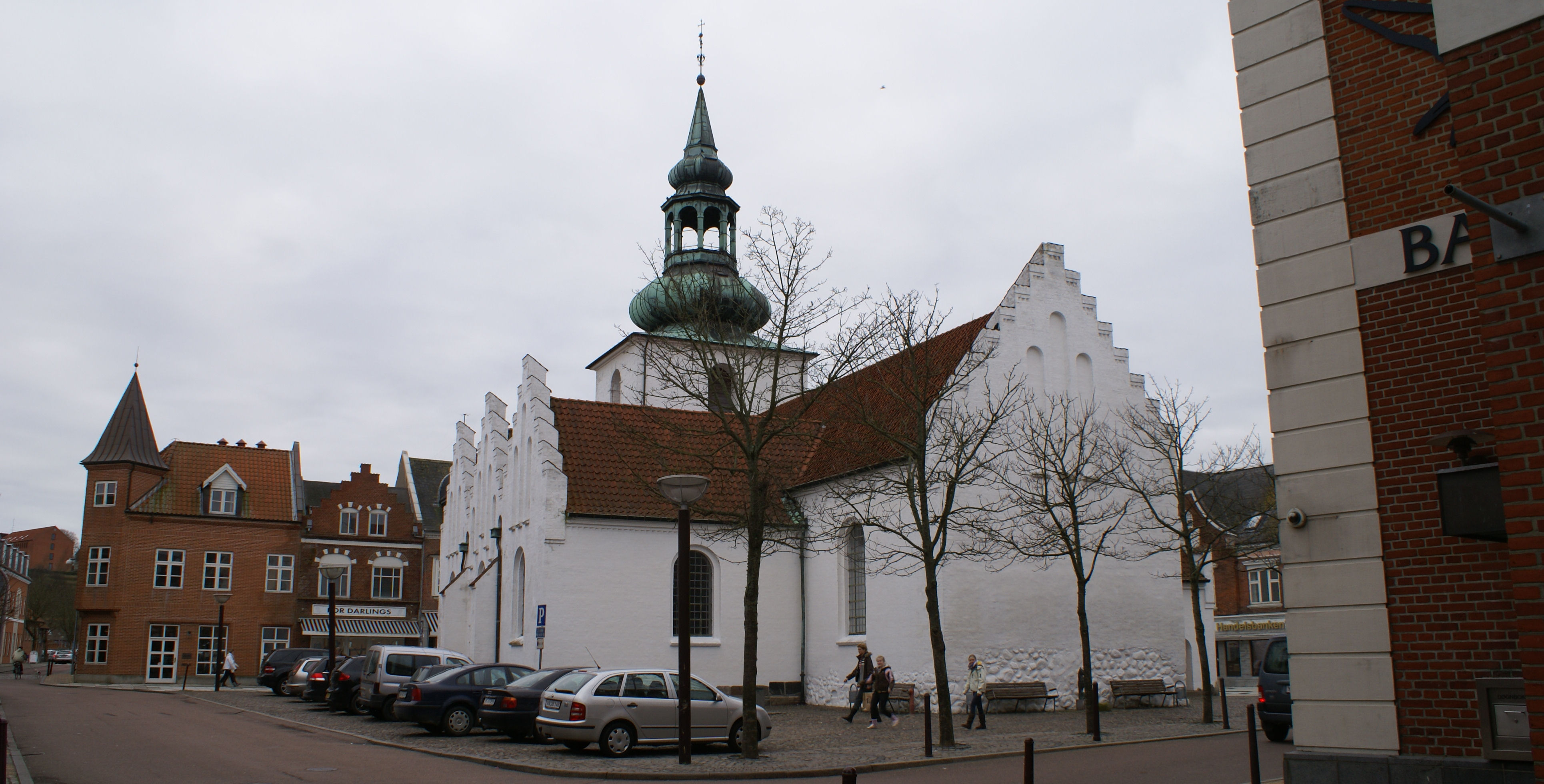 Church of Lemvig, Denmark